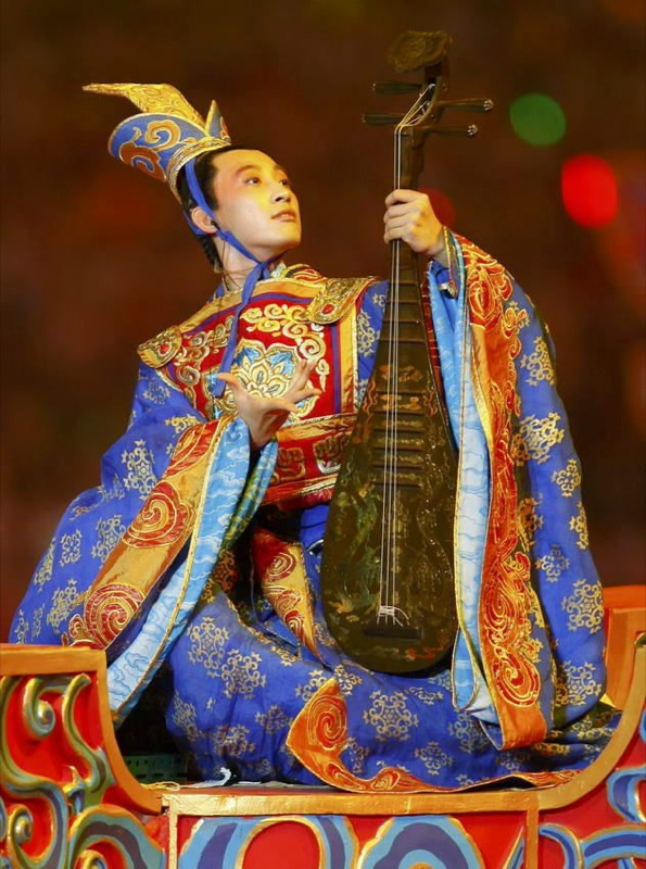 Performances at the 2008 Summer Olympics opening ceremony